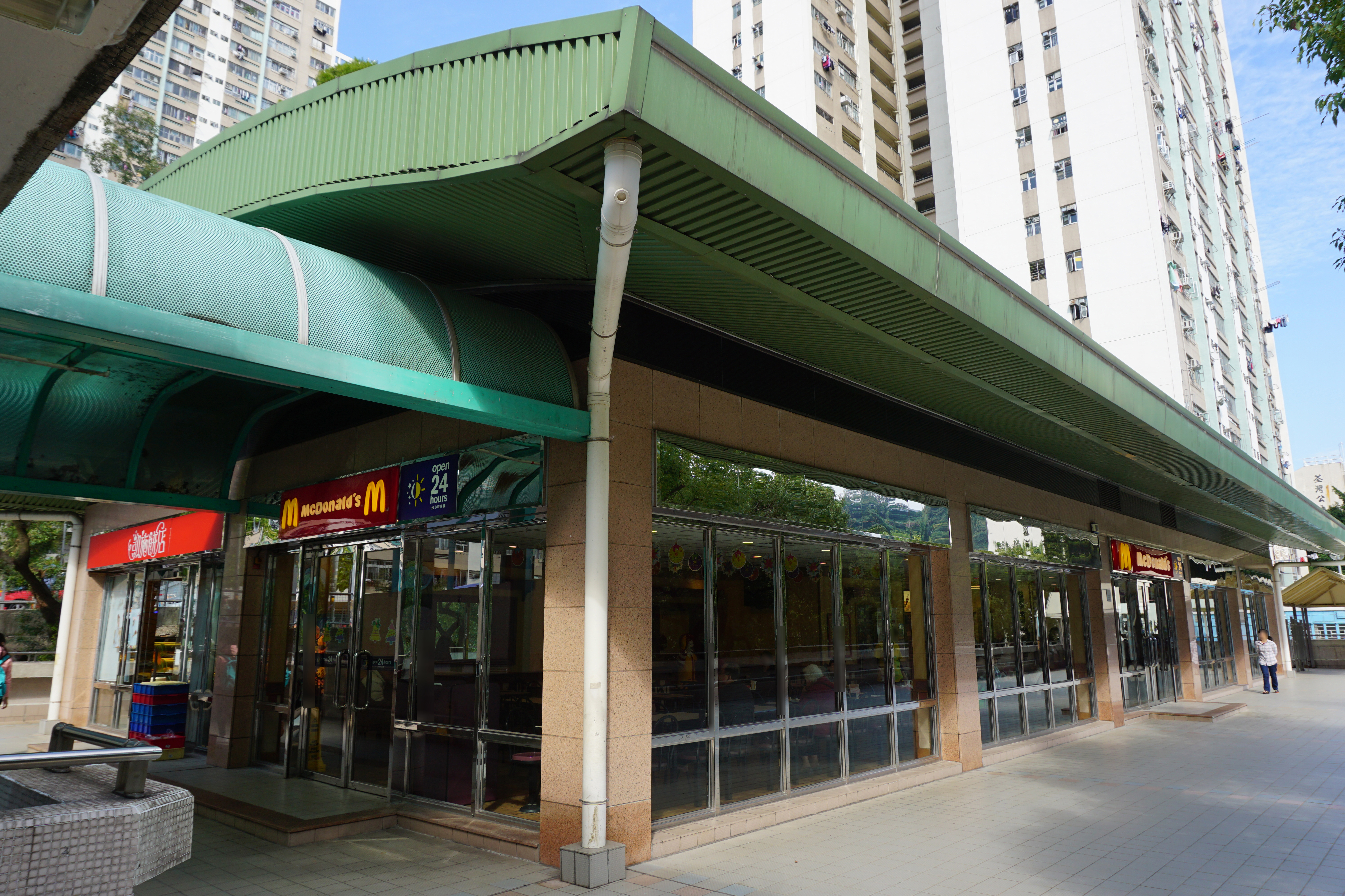 Shek Wai Kok Shopping Centre in Tsuen Wan, Hong Kong.